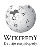 Wikipedia logo 2.0